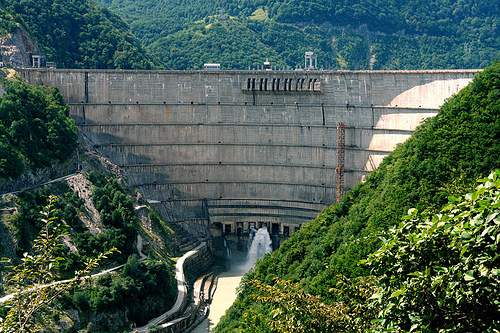 Ingur Hydroelectric Power Station